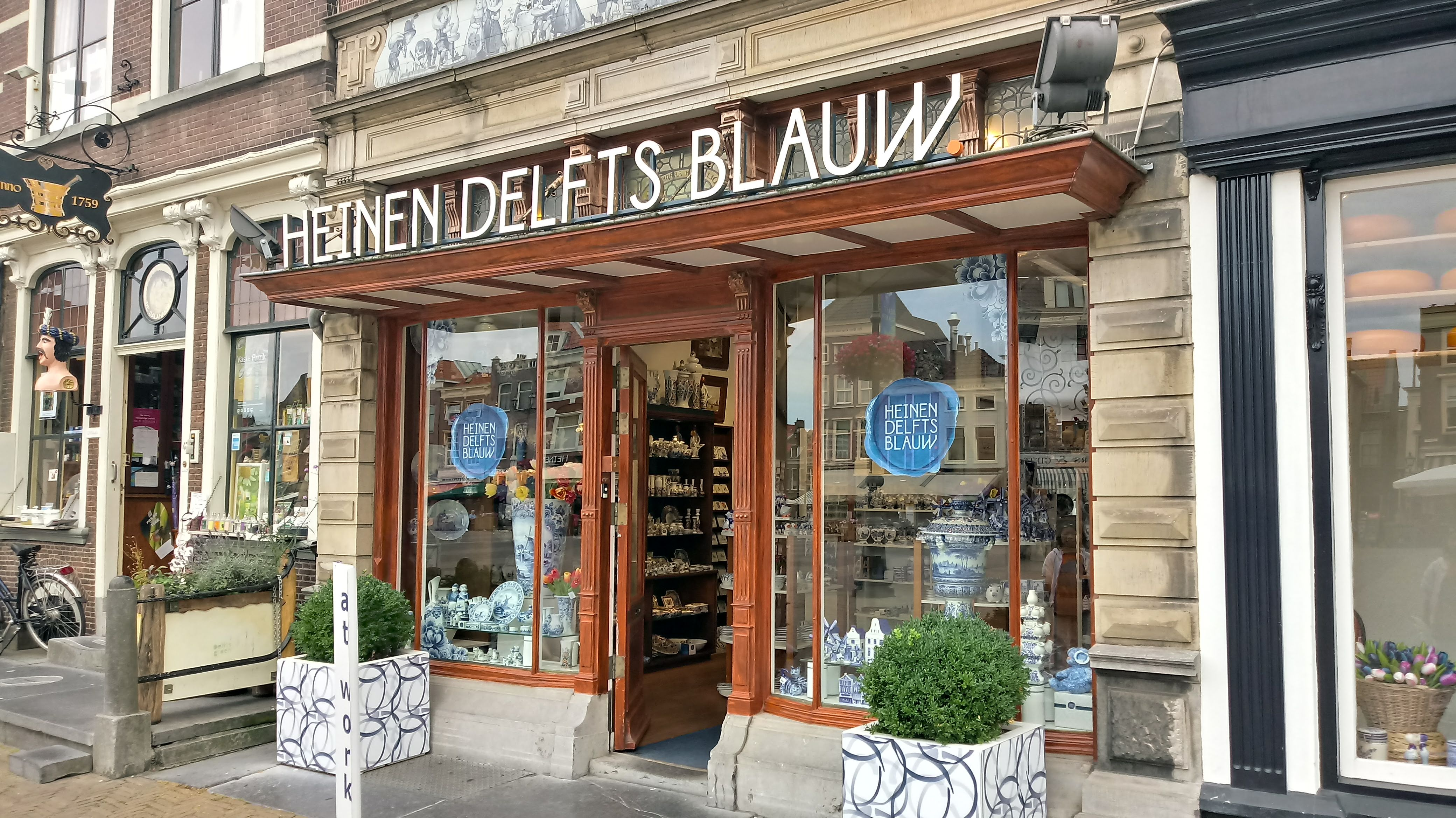 A small local delftware store in the city of Delft, South Holland.